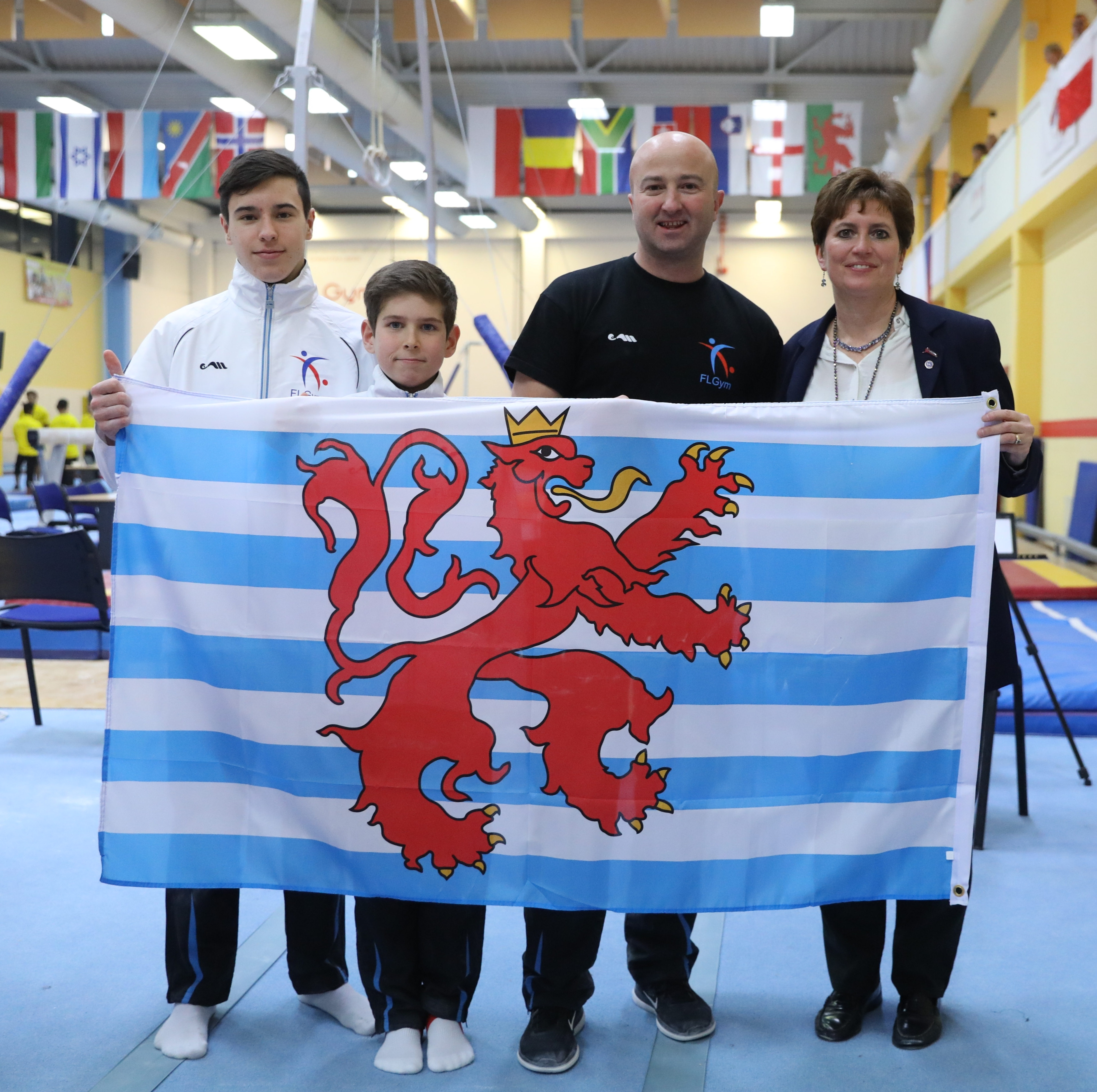 Impressions from the warm-up of subdivision 2 for the boys' all-around competition at the Olympic Hopes Cup 2019 in Liberec on 28 November 2019. Depicted: Quentin Brandenburger. Ronan Foley.